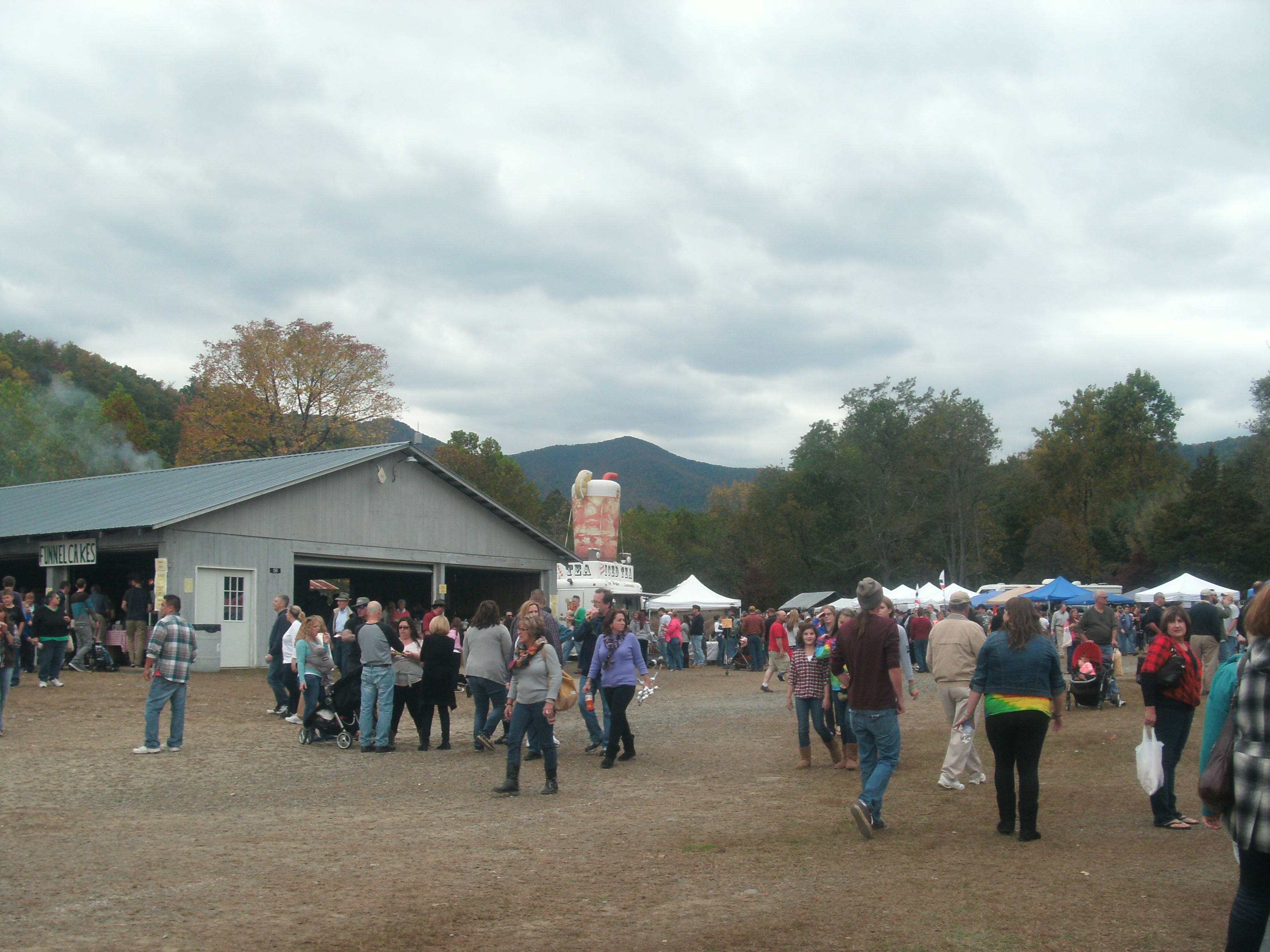 Crowd at the 2014 Graves Mountain Apple Harvest Festival, Syria, Virginia